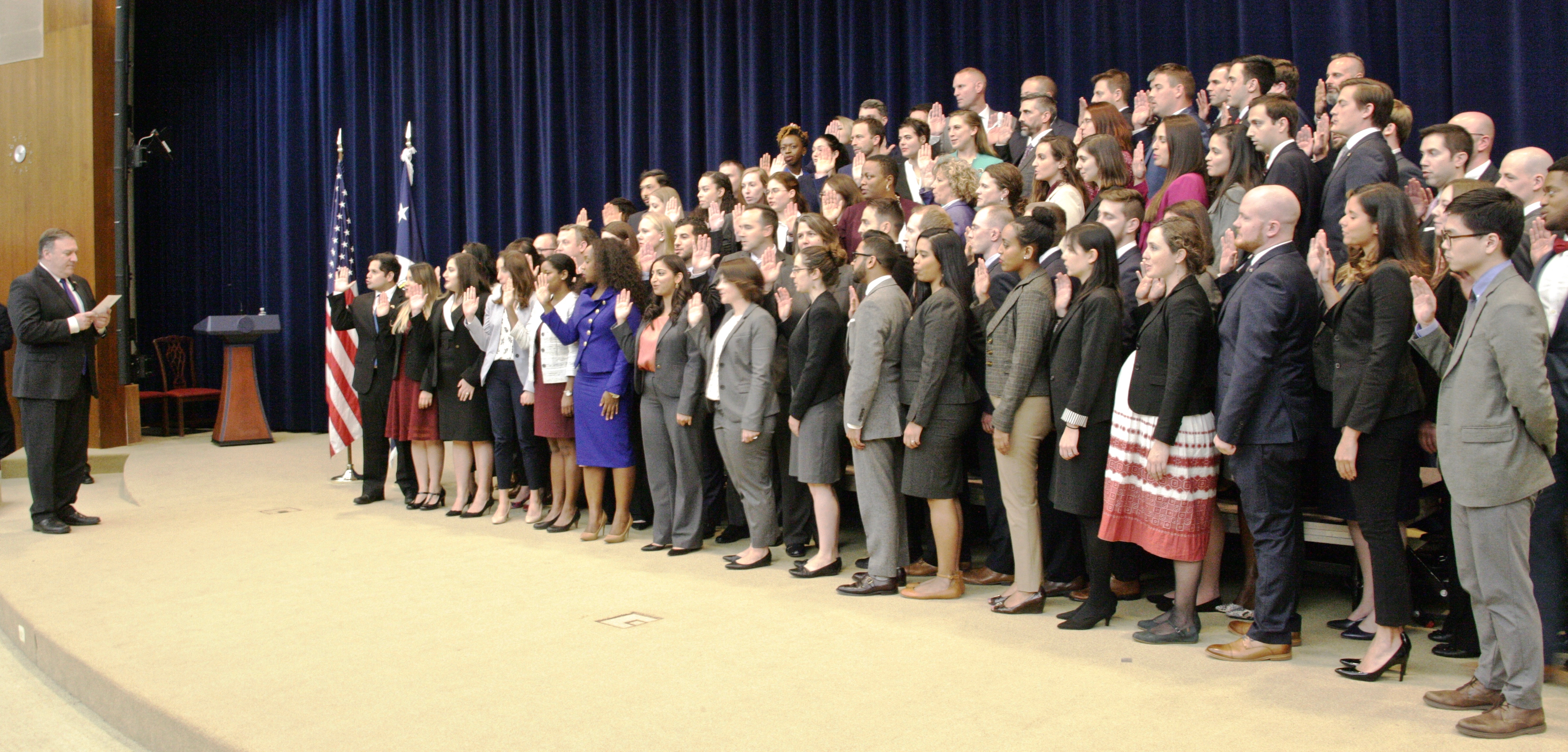 Secretary Michael R. Pompeo delivers remarks and administers the Oath of Office to the 195th Foreign Service Generalist Class, at the Department of State, October 12, 2018. [State Department Photo / Public Domain]